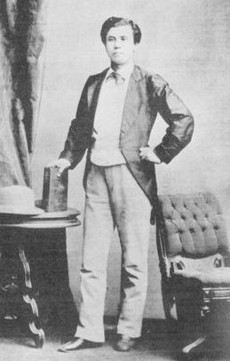 Kidokouun 明治五年四月，於美國華盛頓。